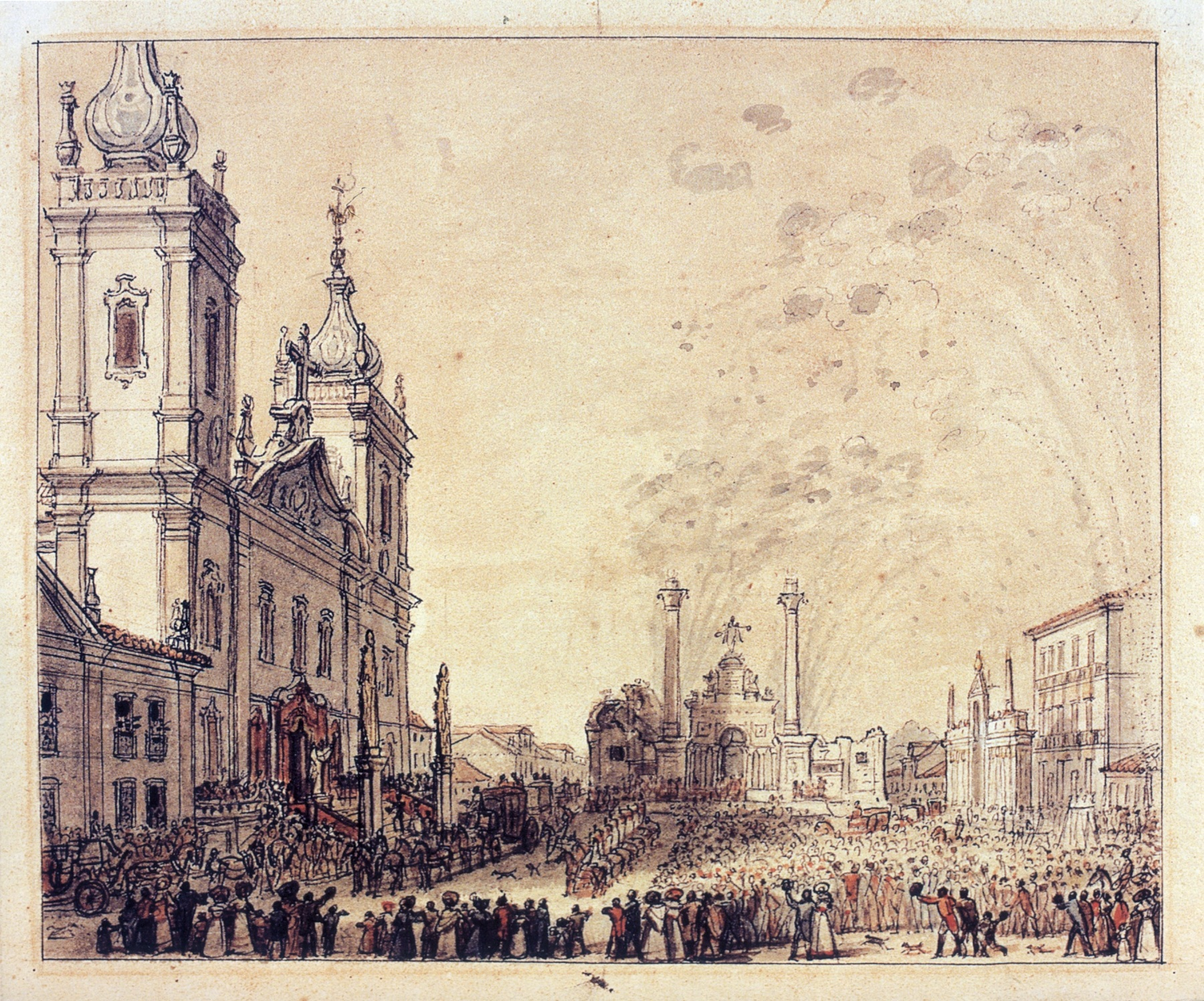 Celebration in São Francisco de Paula square for the return of Emperor Dom Pedro I from Bahia province, 4 April 1826. The São Francisco de Paula Church can be seen to the left.